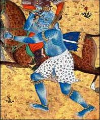 Painting of Arzhang in The Shahnama of Shah Tahmasp